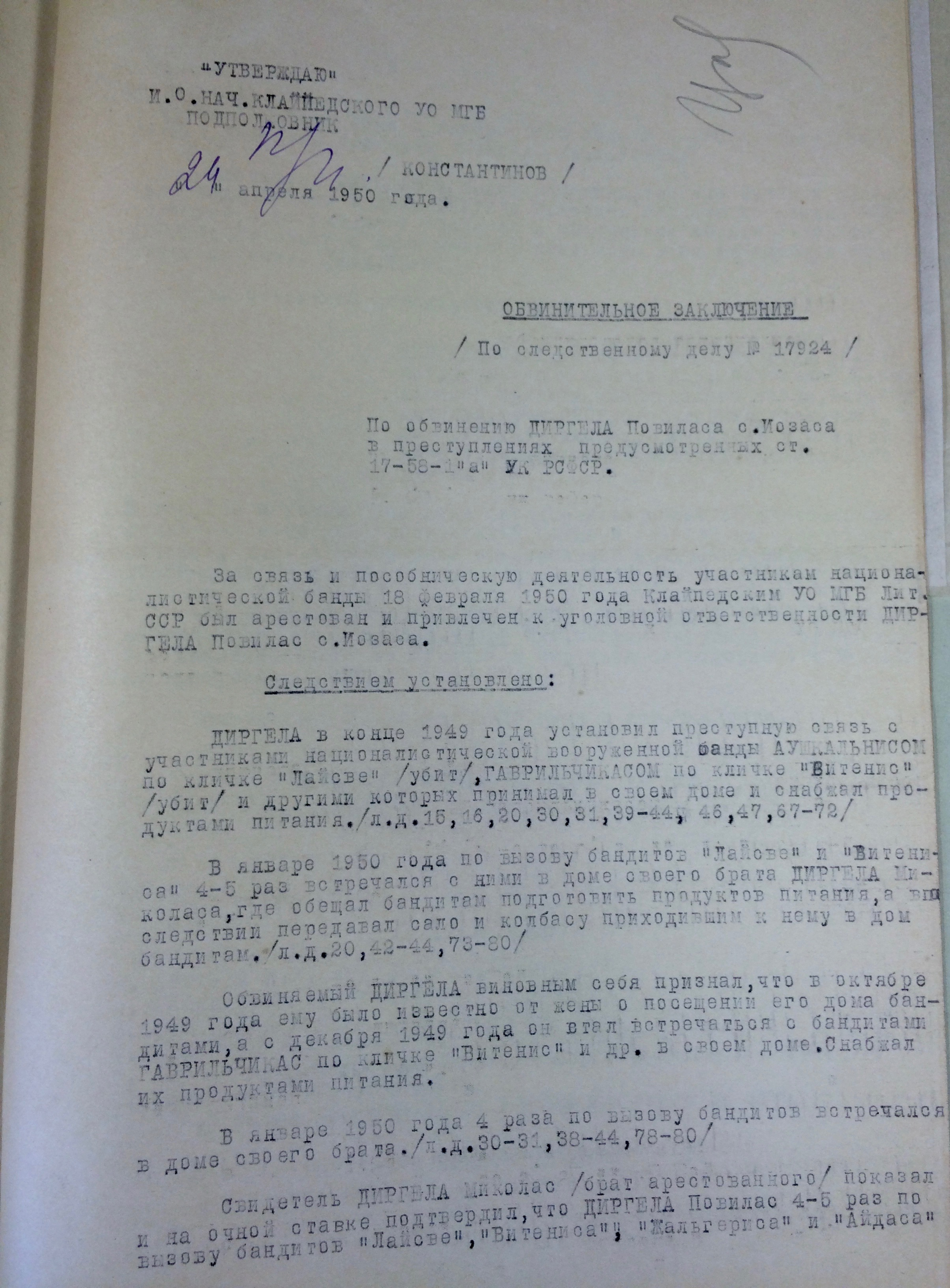 Bill of indictment for the crimes foreseen in Article 58 of RSFSR Penal code (political crimes)